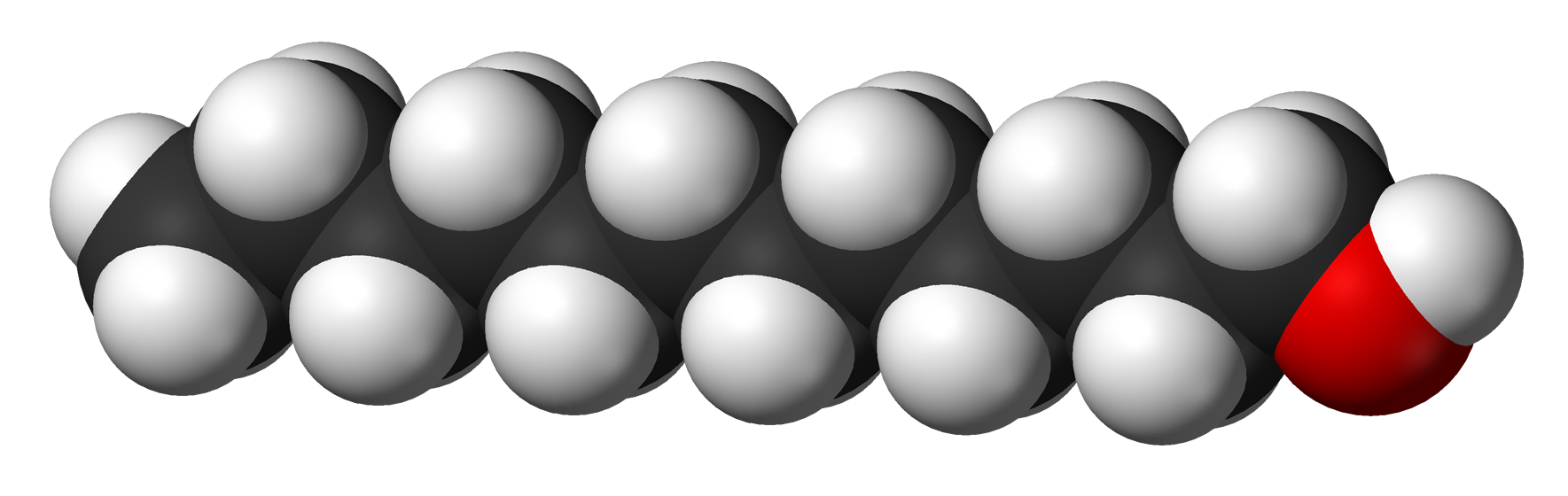 Ball and stick model of the lauryl alcohol molecule.